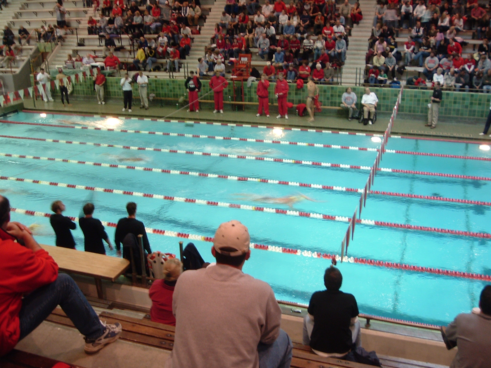 A swim meet at The Ohio State University. Self made photo.